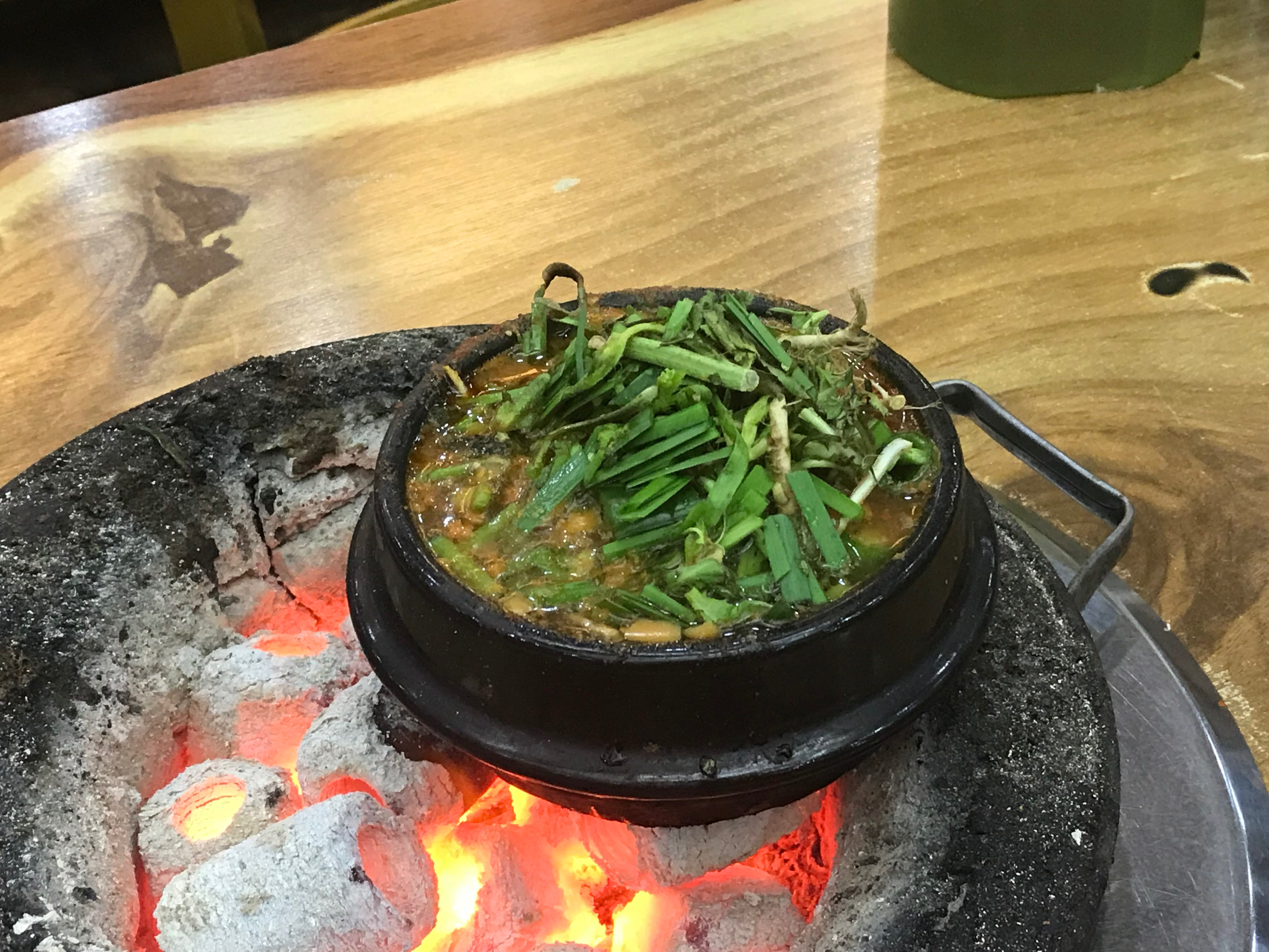 Doenjang-jjigae (soybean paste stew)